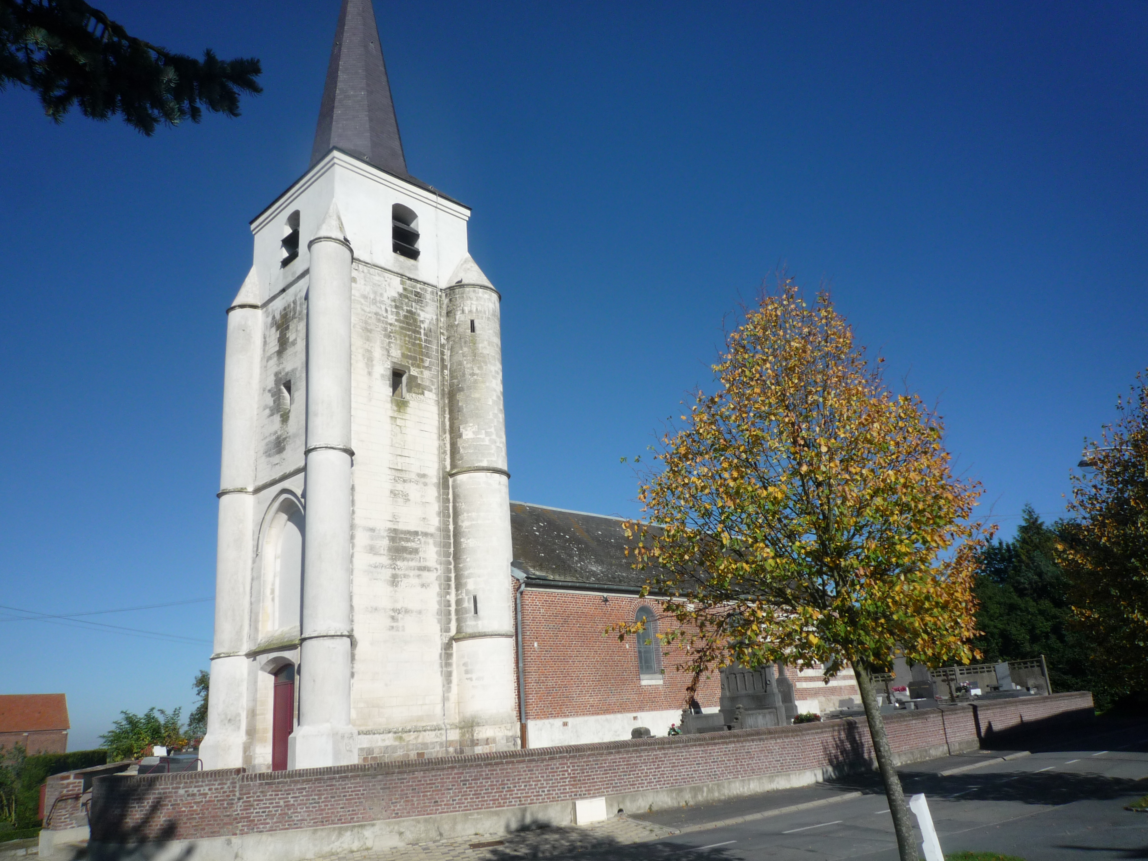 Church Saint-Barthélémy at Audencourt, Caudry, Nord-Pas-de-Calais, France.